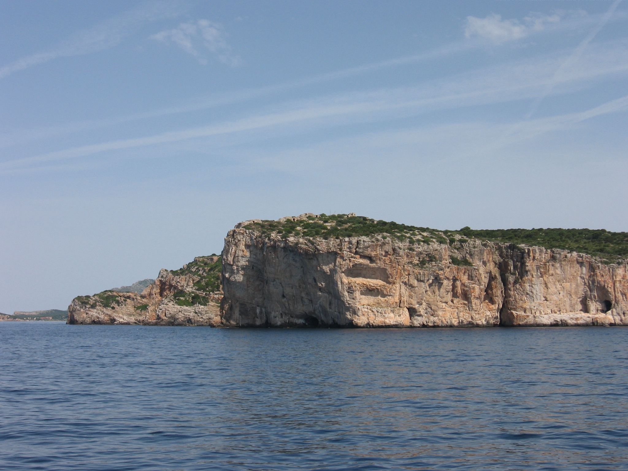 Punta Giglio